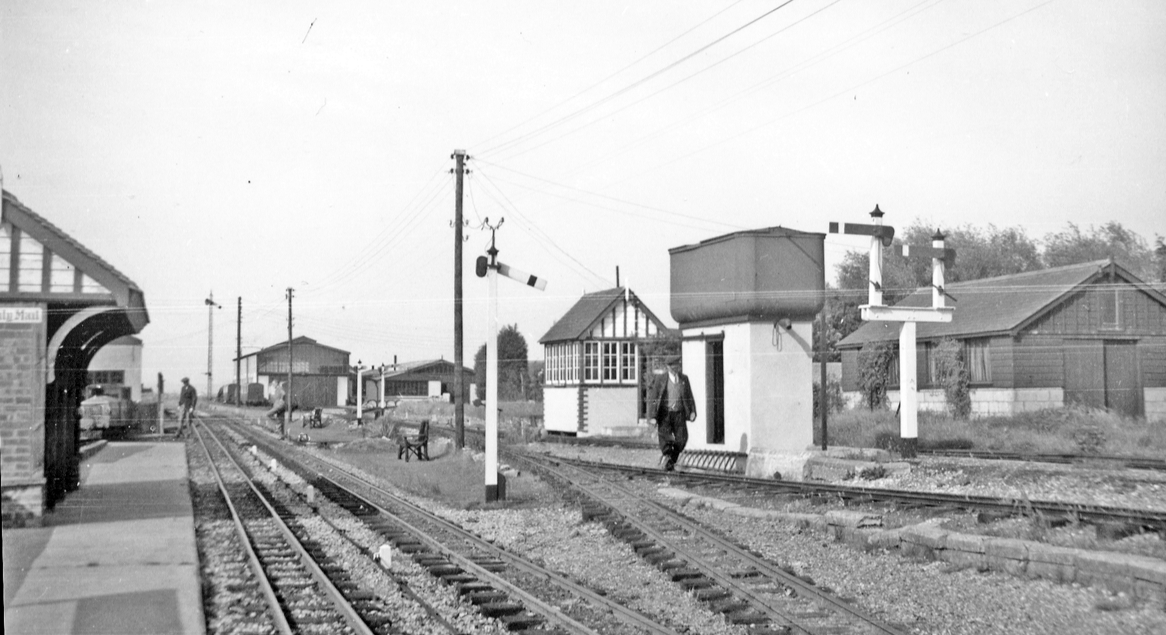 New Romney RH&DR station, 1938View northward, towards Hythe, on the Romney, Hythe & Dymchurch (15in. gauge) Railway. In the distance is the RH&DR engine-shed. The terminus of the standard-gauge ex-SE&CR branch from Lydd and Appledore was behind the camera.